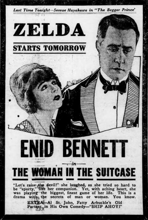 Newspaper ad for the American drama film The Woman in the Suitcase (1920) with Enid Bennett and William Conklin, on page 11 of the March 20, 1920 Duluth Herald.